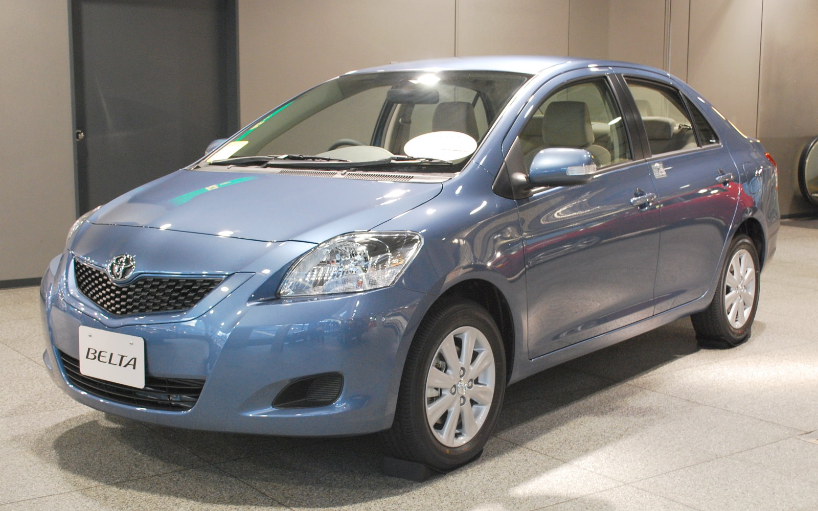 Toyota Belta (2008/8 - ) photograhped at AMLUX